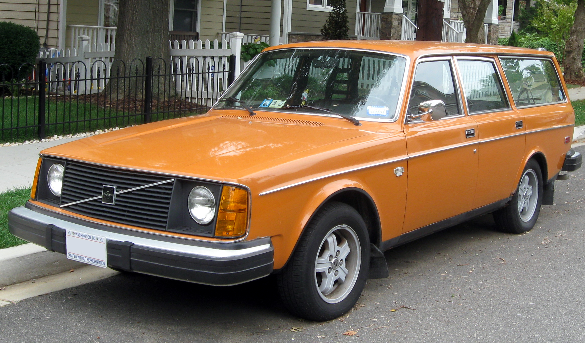 1975 Volvo 245 DL photographed in Washington, D.C., USA.